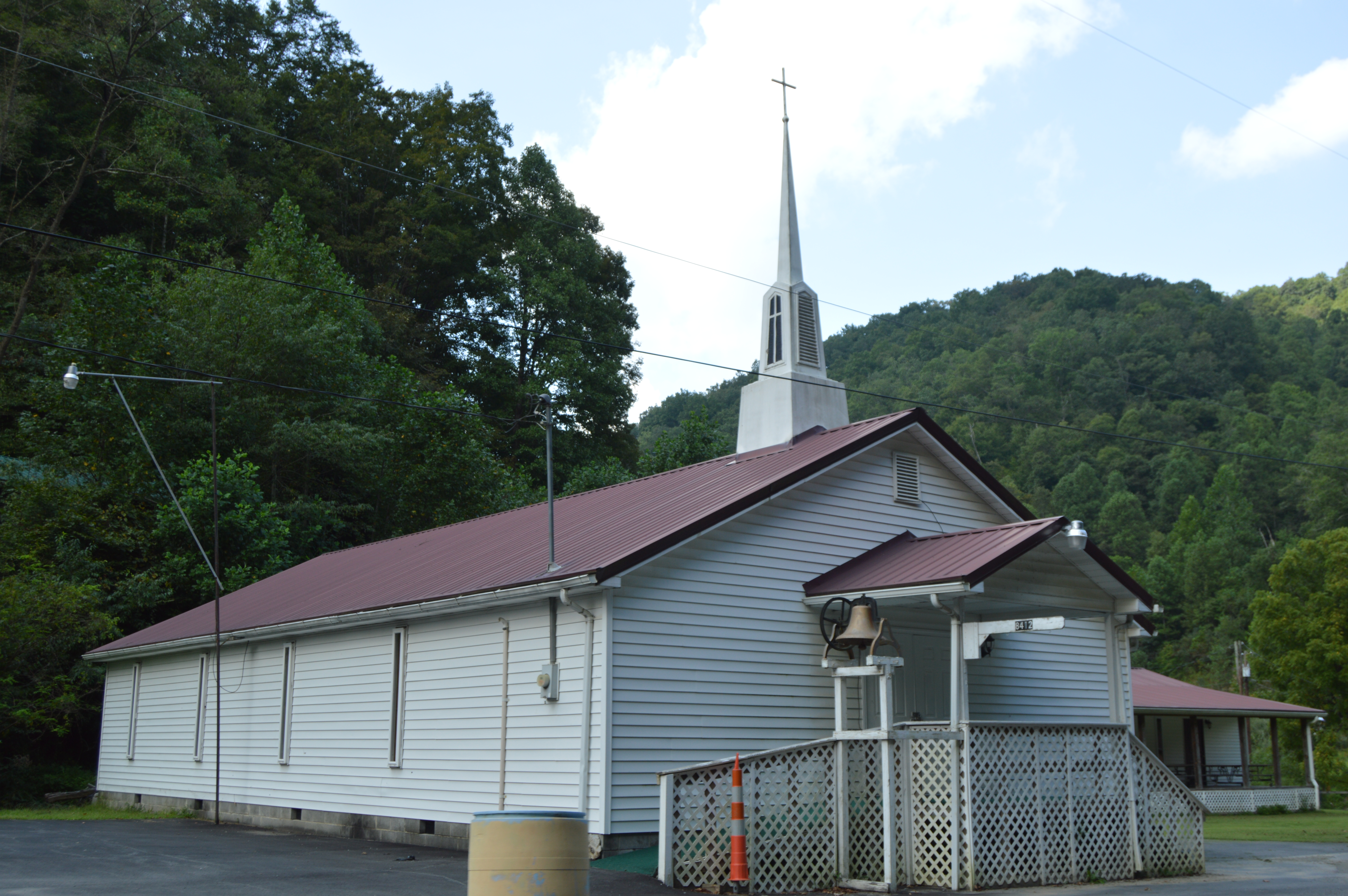 Front and southern side of the Church of Zion, located along U.S. Route 52 at Ikes Fork in Wyoming County, West Virginia, United States.